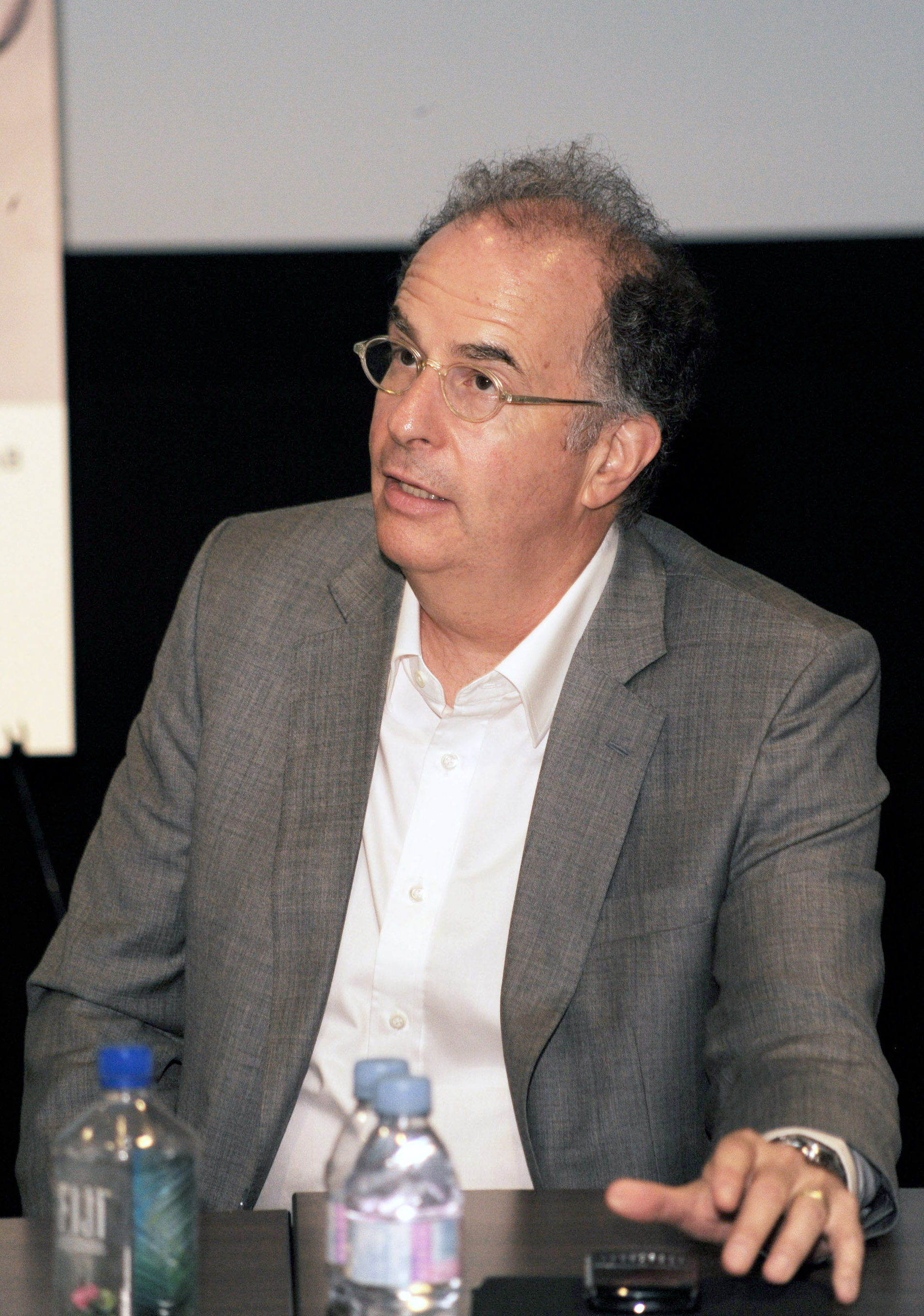 Producer Daniel Goldberg (The Hangover series, Old School) at the May 2011 Telefilm Canada Features Comedy Lab event.